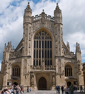 Terry A. McDonald